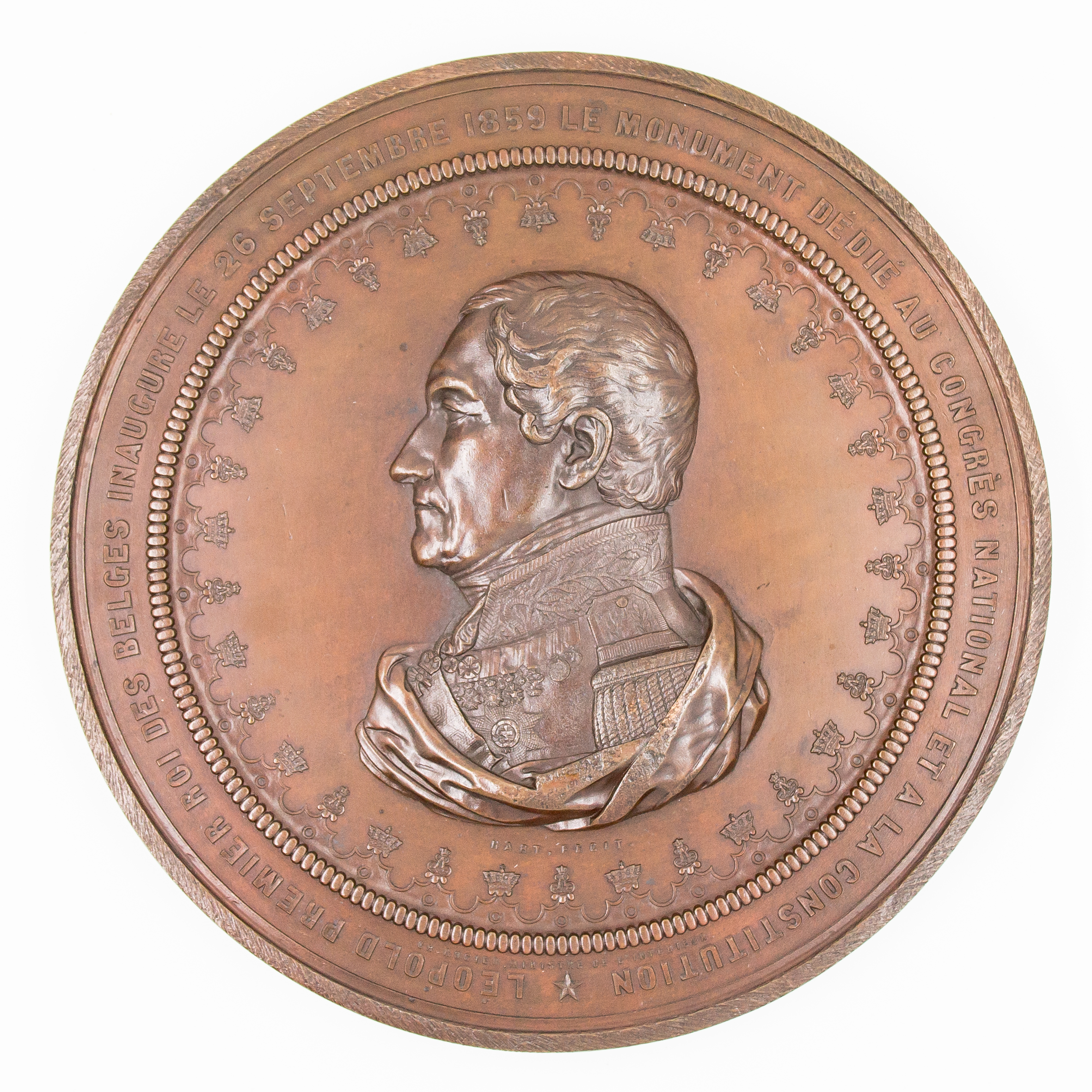 Medal made of bronze by Laurent Hart. Leopold I of Belgium, for the inauguration of monument of the Congress Column and the Constitution.